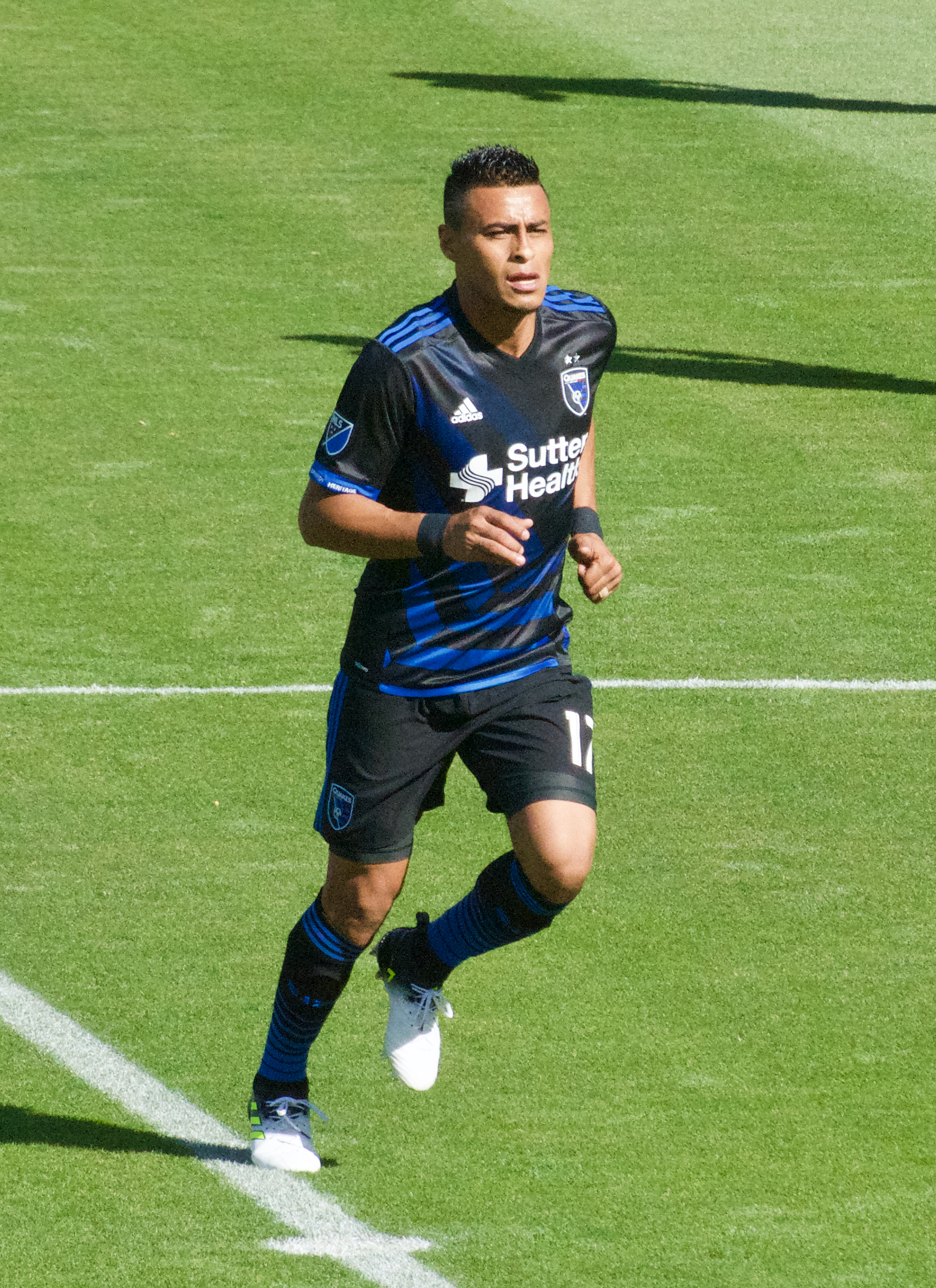 Darwin Ceren playing for San Jose Earthquakes, Avaya Stadium, 29 July 2017